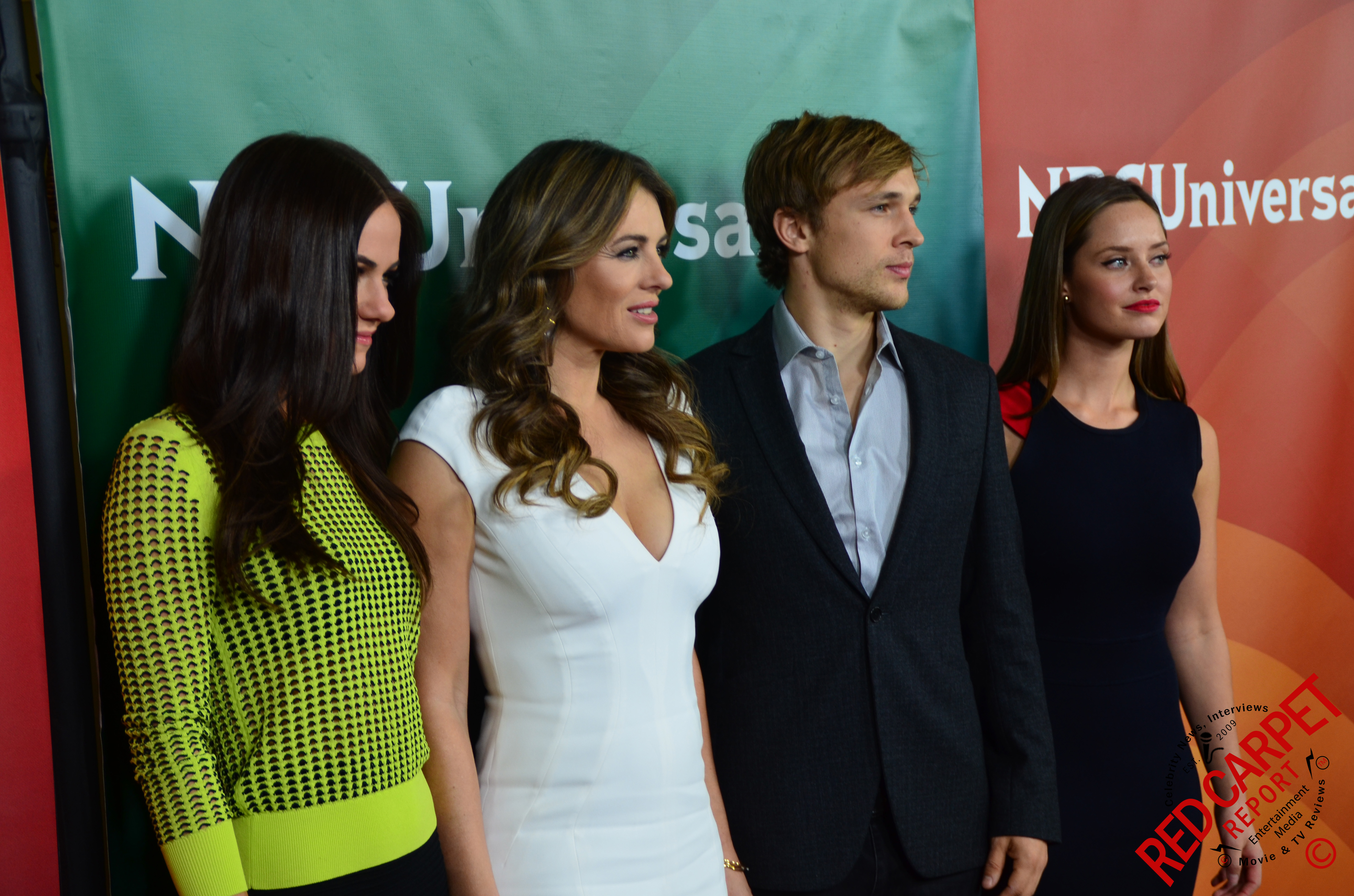 Alexandra Park, Elizabeth Hurley, William Moseley & Merritt Patterson at the 2015 Television Critics Association’s Press Tour for the NBC Universal TV show announcements, interviews with cast and creators at The Langham Huntington Hotel in Pasadena, CA on January 15, 2015